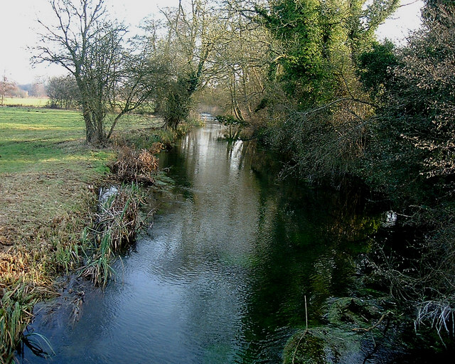 Bransbury - River Dever Looking down the river Dever back towards the village of Barton Stacey.